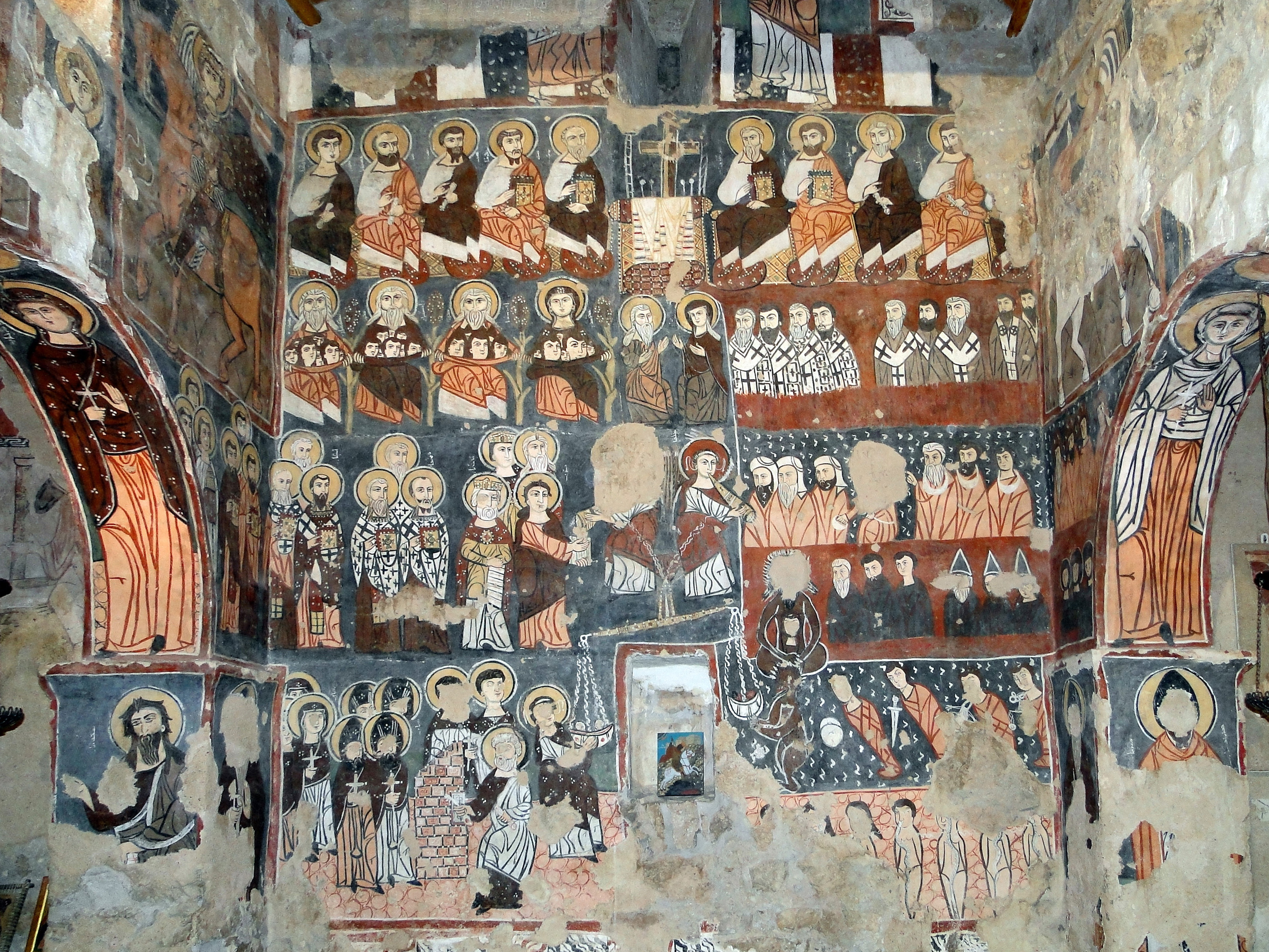 Frescos of the Last Judgment in the church of Deir Mar Musa al-Habashi or Monastery of Saint Moses the Abyssinian, Syria